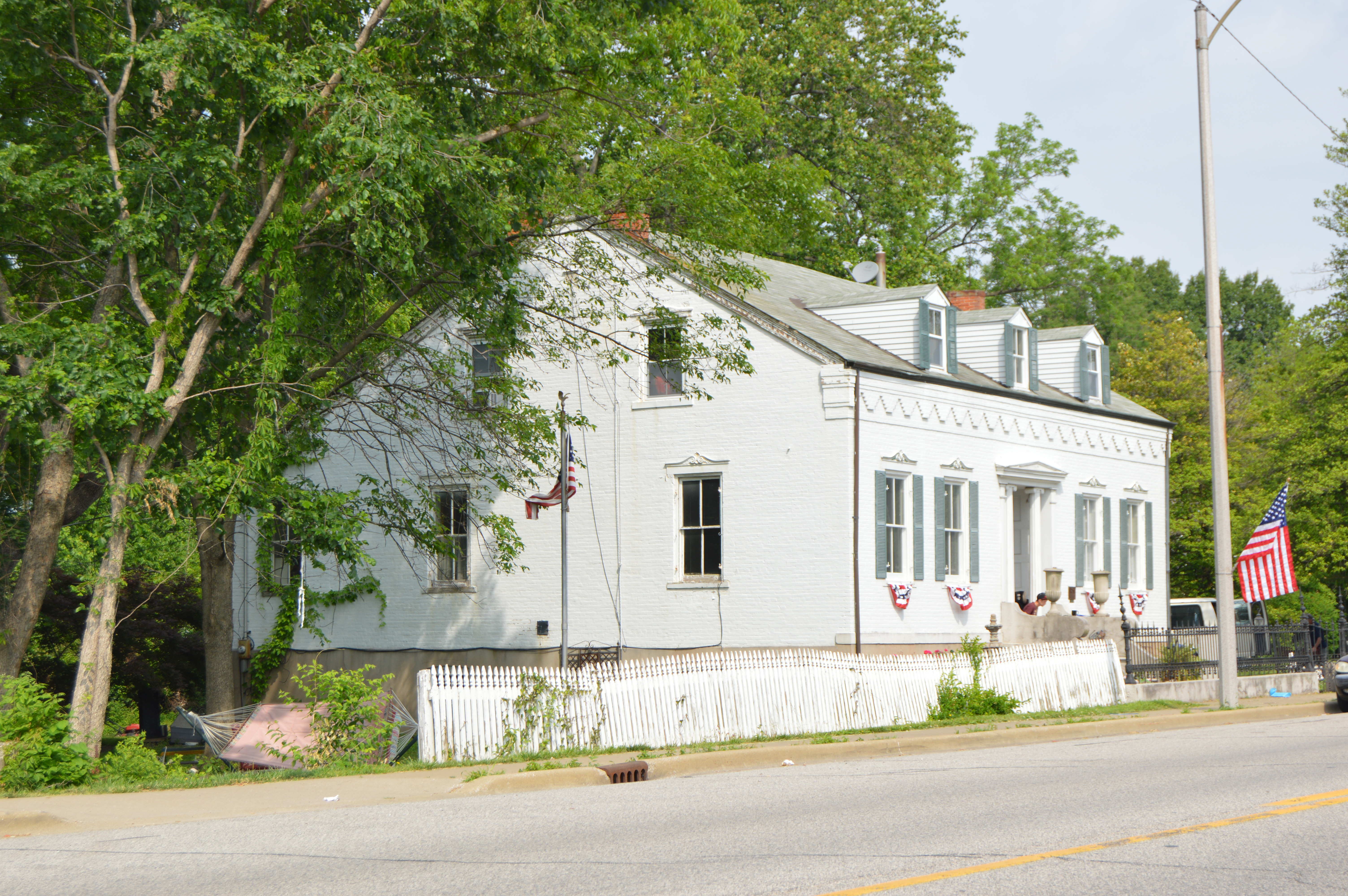 Front and southern side of the Gundlach-Grosse House, located at 625 N. Main Street in Columbia, Illinois, United States. Built in 1857, it is listed on the National Register of Historic Places.